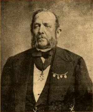 Karl Wilhelm Remus von Woyrsch (1814–1899)